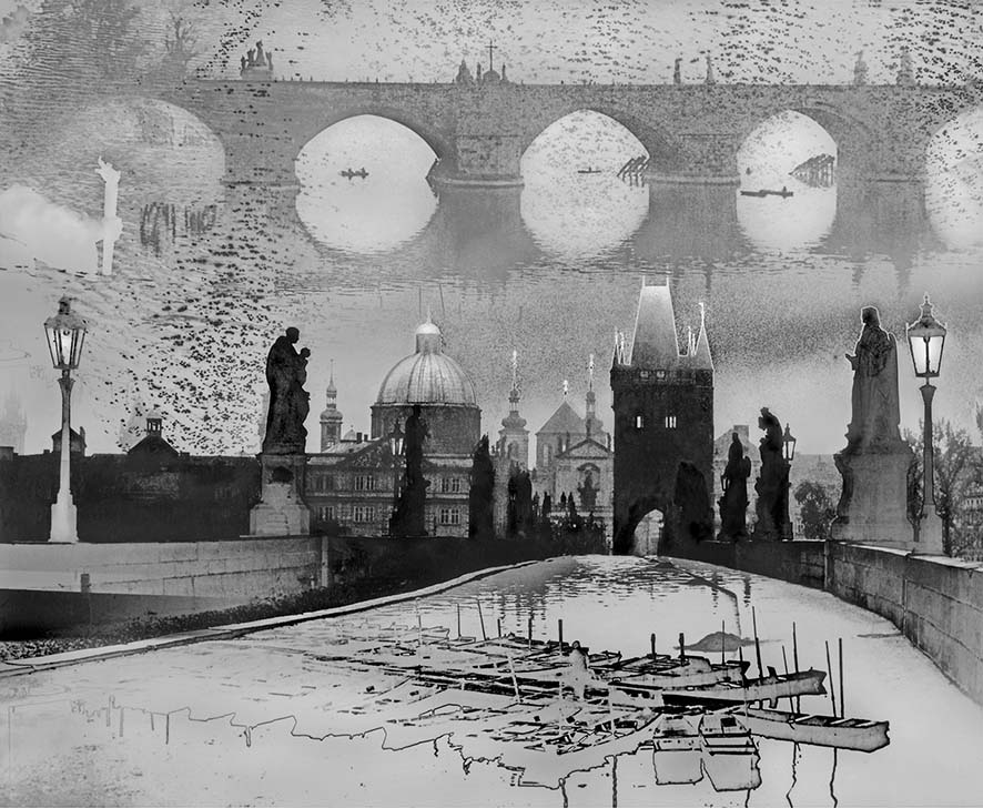 Jan Šplíchal, from the cycle Prague, 1968